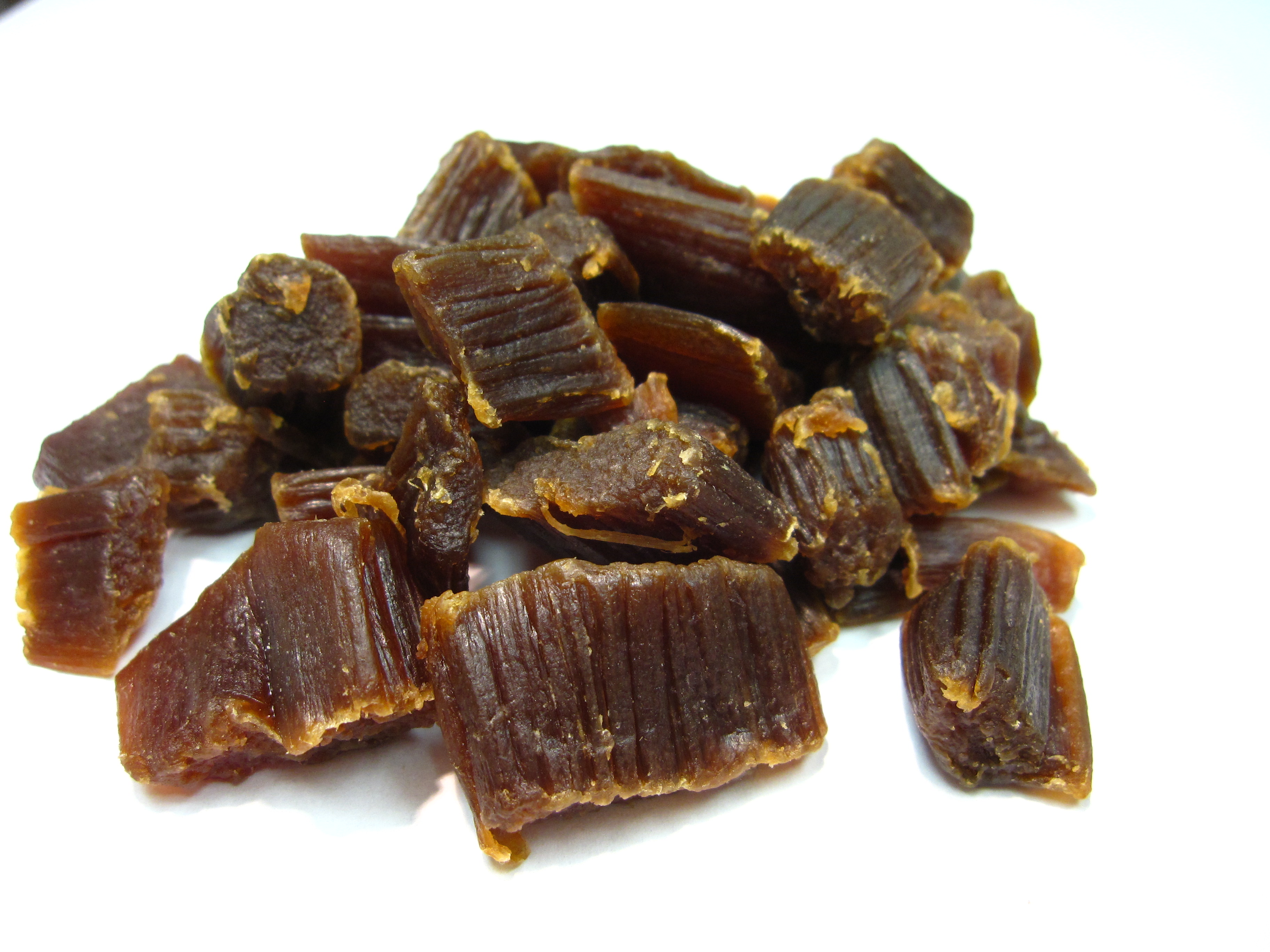 Strawberry Rhubarb, Apple Juice Infused. Dried fruit